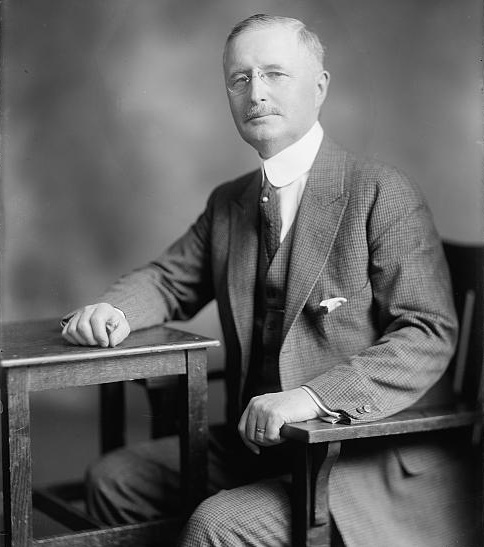 Thomas F. Smith, Congressman from New York